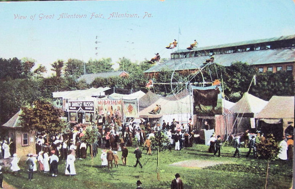 Postcard from the Old Allentown Fairgrounds (6th & Liberty sts) - Midway - 1880s